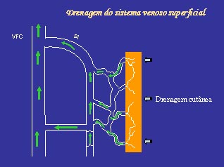 Superficial venous flow